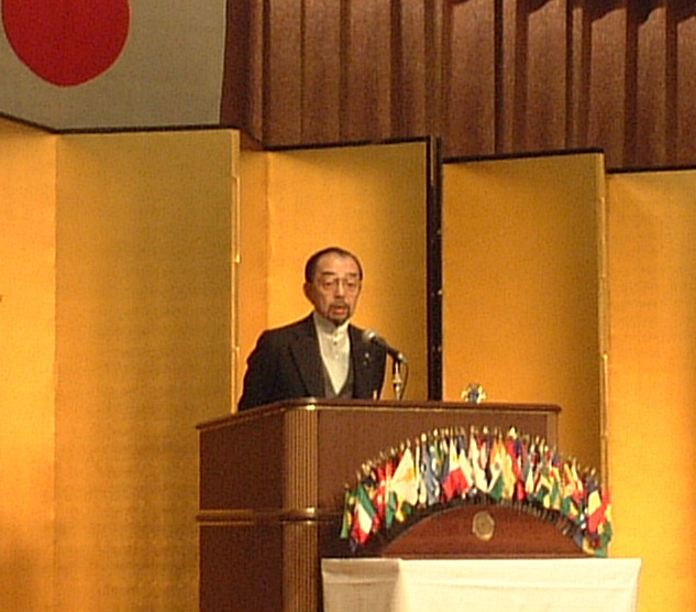 Prince Tomohito Mikasa; Shinno a royal family member of Japan